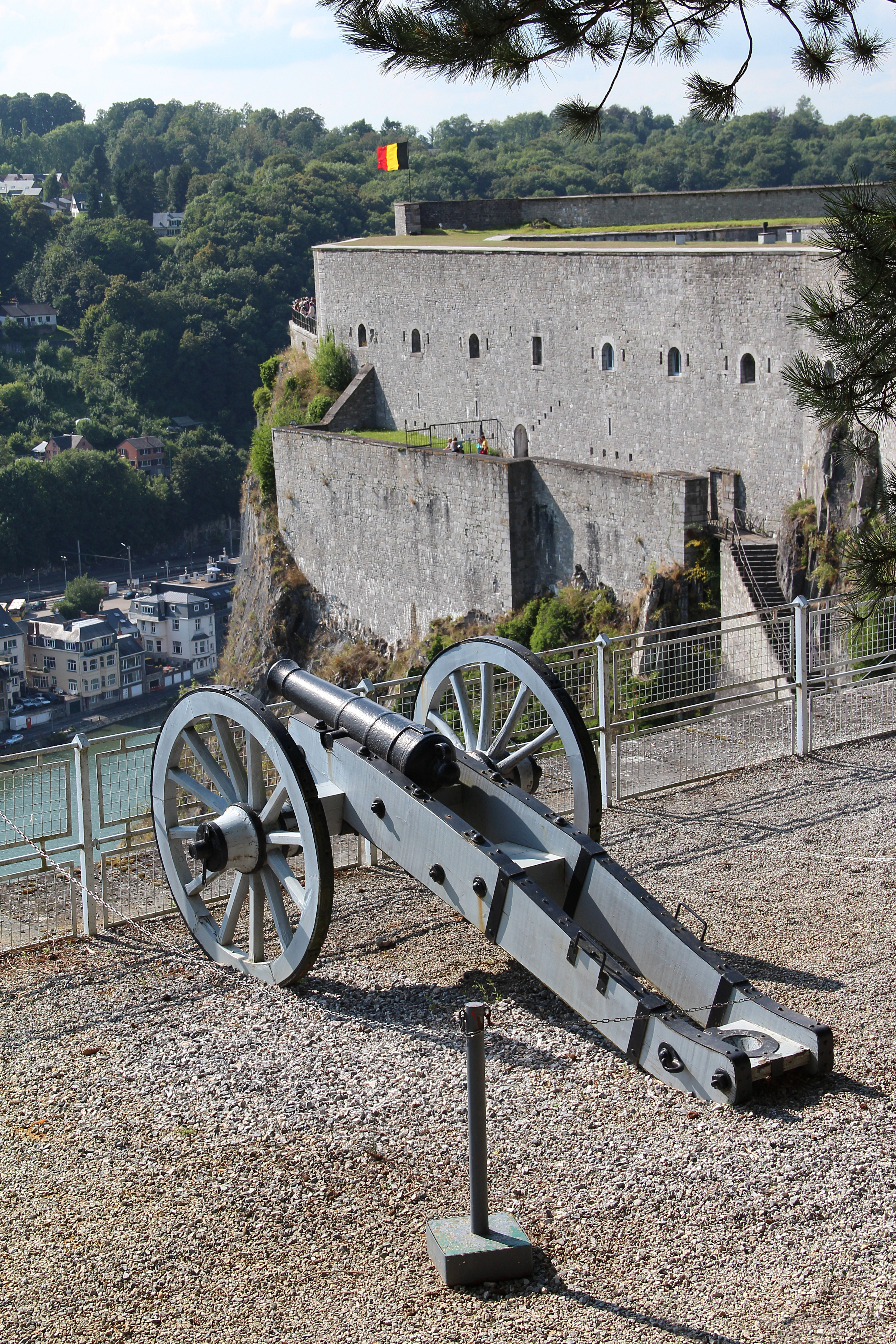 The Citadel (XI-XIX centuries) of Dinant (Belgium).